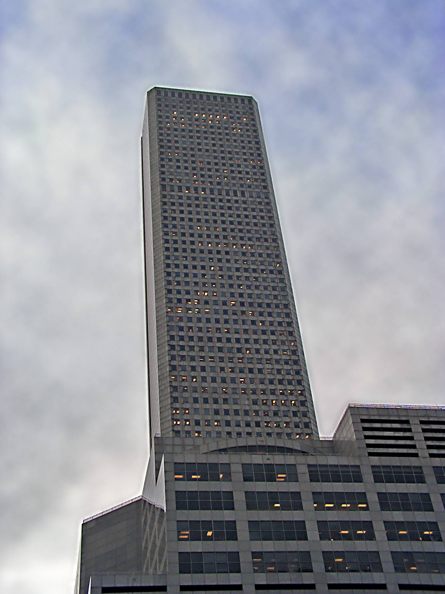 The J.P. Morgan Chase Tower in Houston, Texas, USA, from near its base.